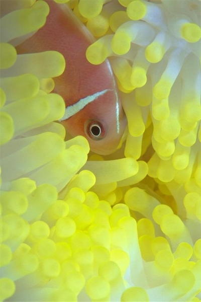 Pink Anemonefish, Andrew Dawson Wildlife Photography